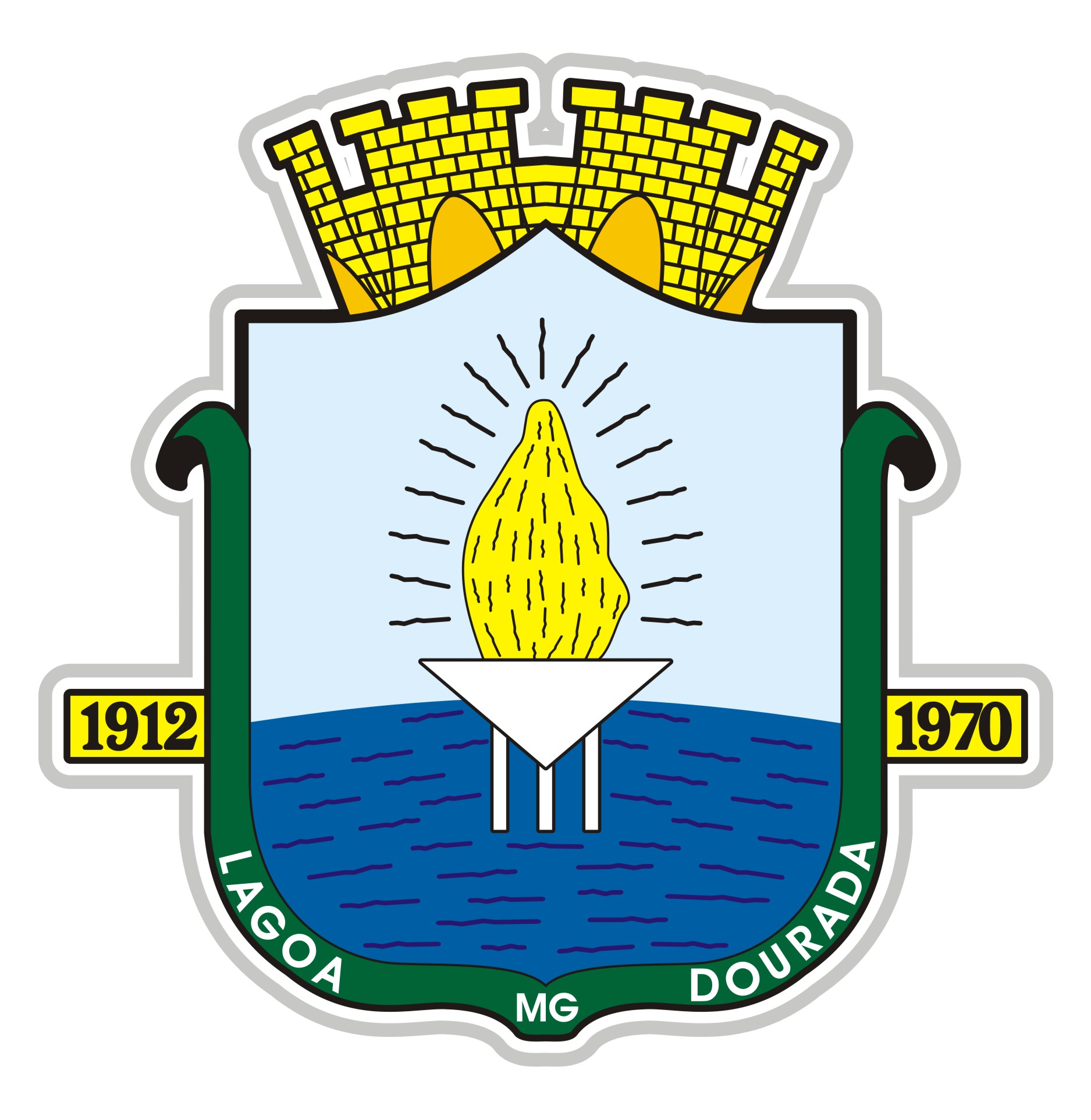 This is Lagoa Dourada's coats.